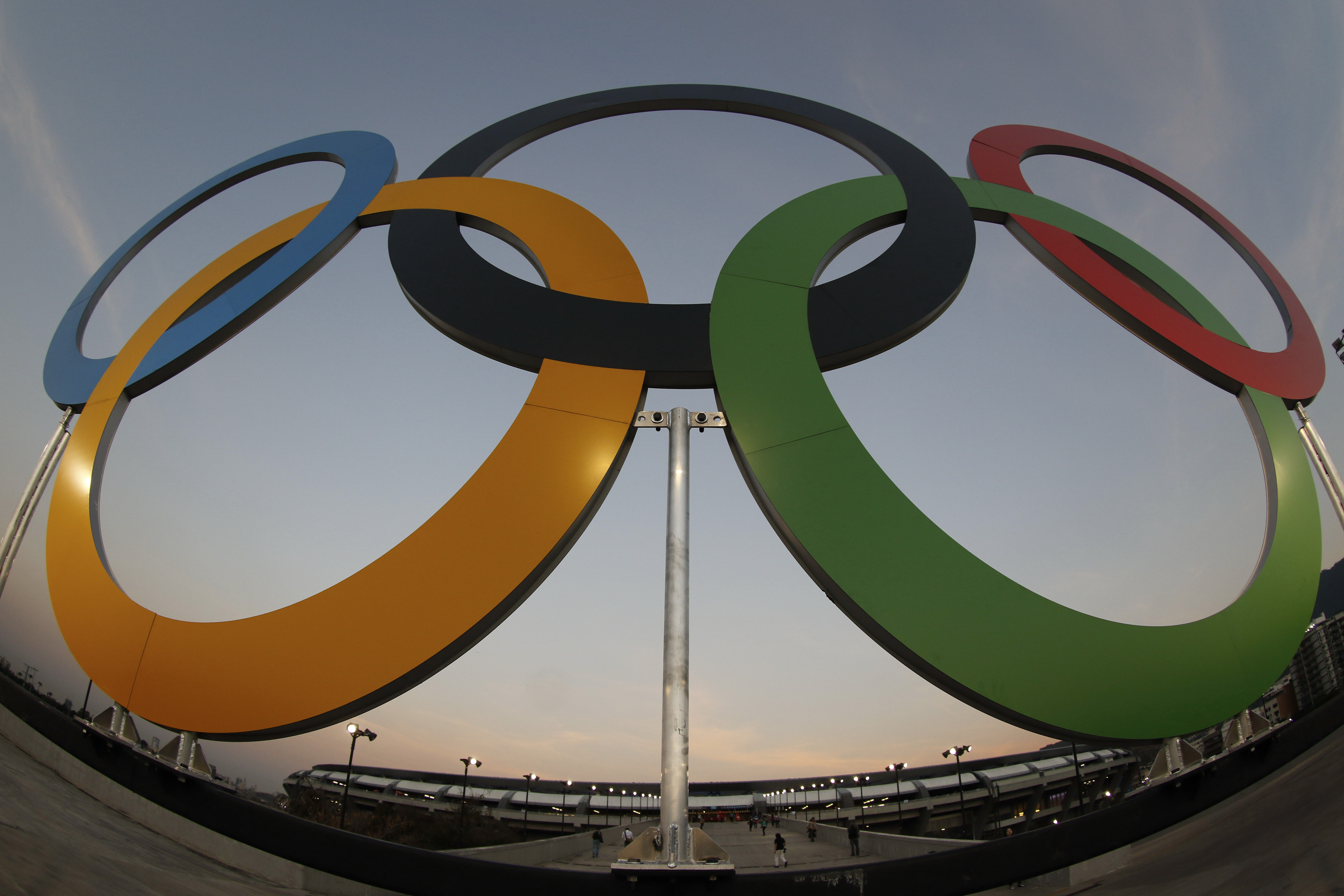 Rio de Janeiro - Anéis olímpicos decoram Estádio do Maracanã para cerimônia de abertura dos Jogos Rio 2016 (Fernando Frazão/Agência Brasil)